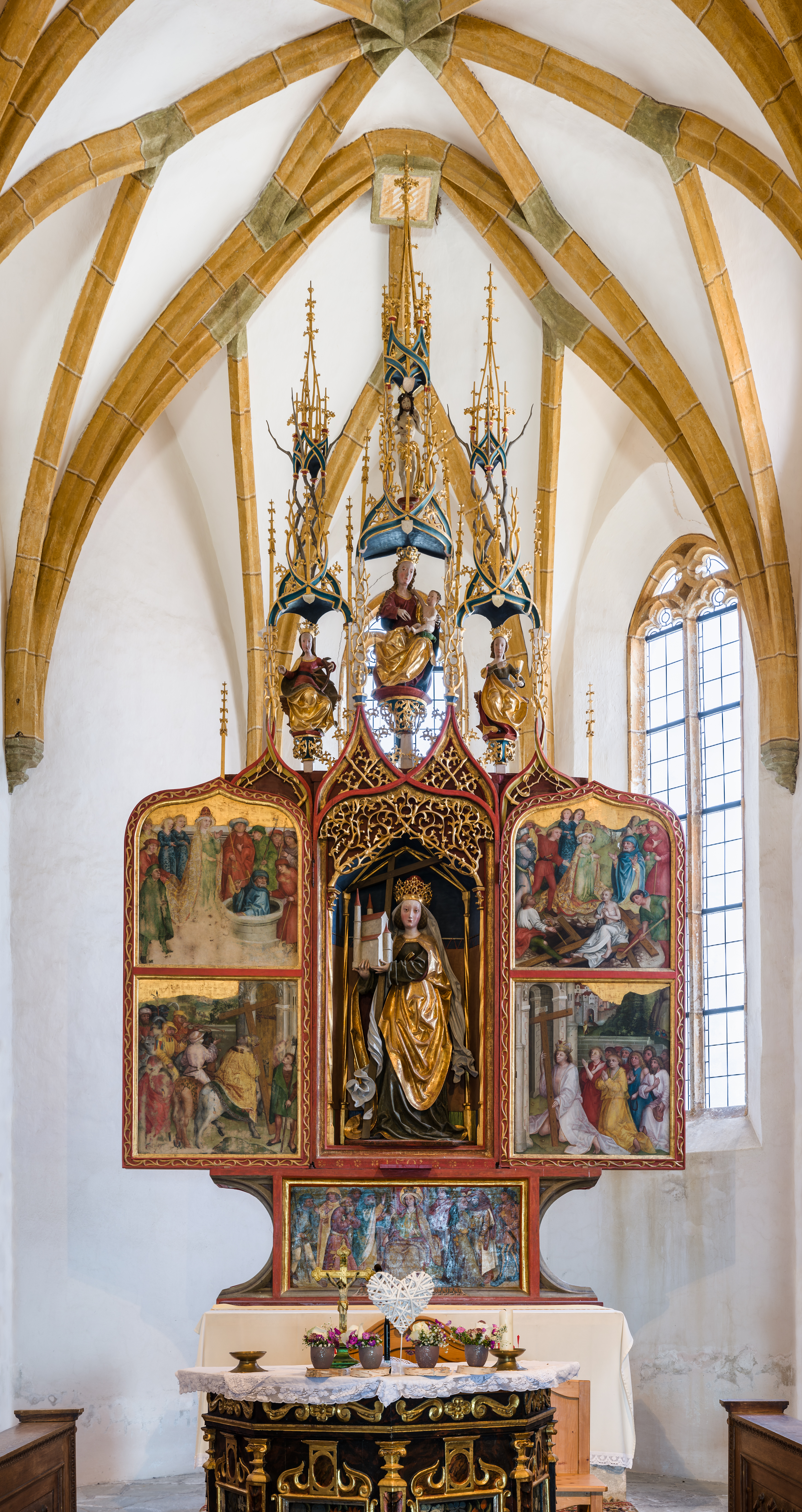 Winged altar at the church on mount Magdalensberg, Carinthia, Austria. Anonymous master of the elder Villach Workshop, 1502.